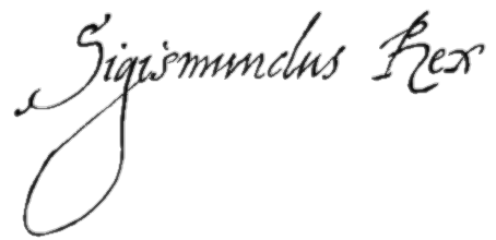 Scripture of Sigismund III Vasa